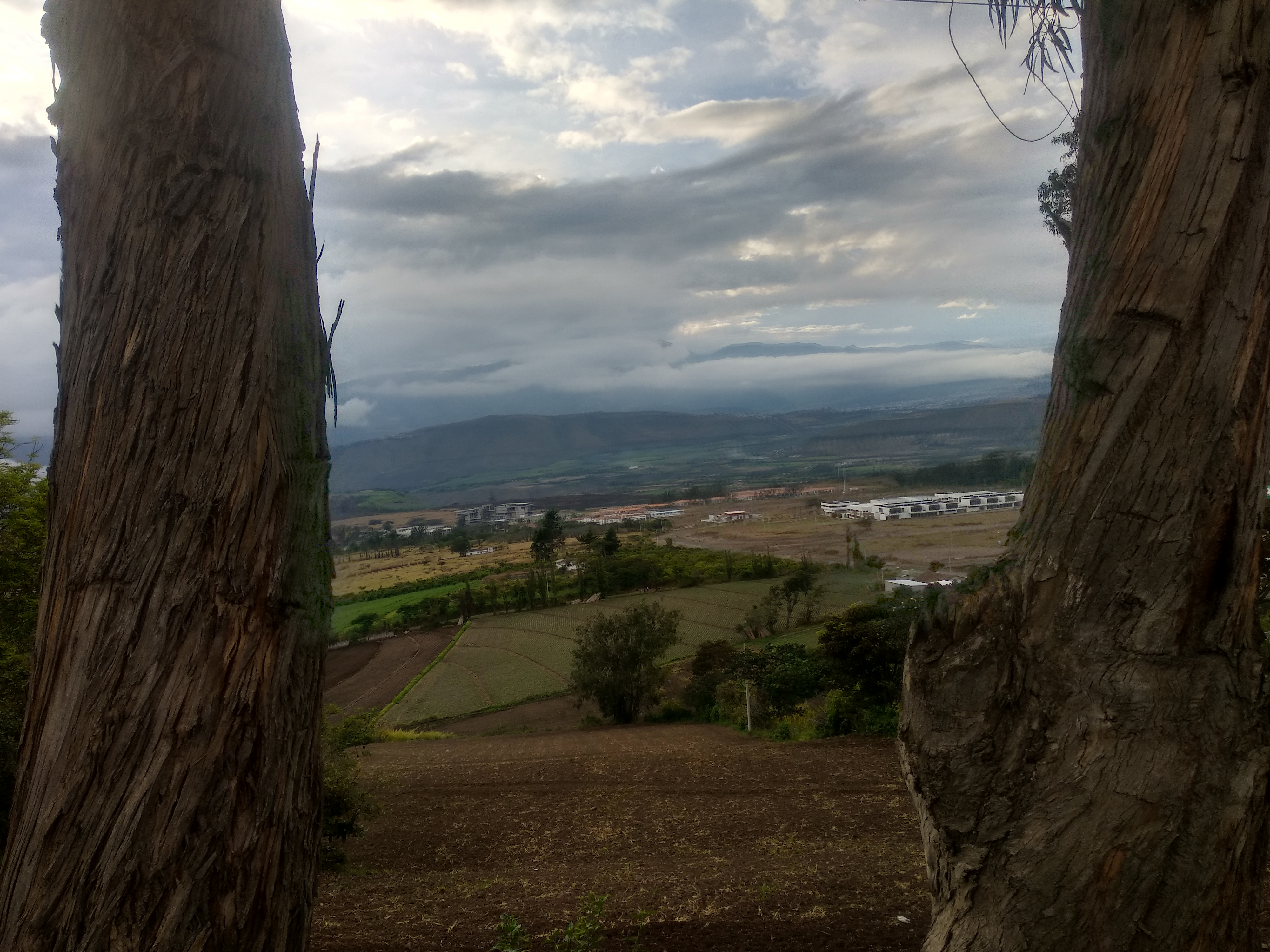 There is a Valley of urcuquí, that have peace and harmonious